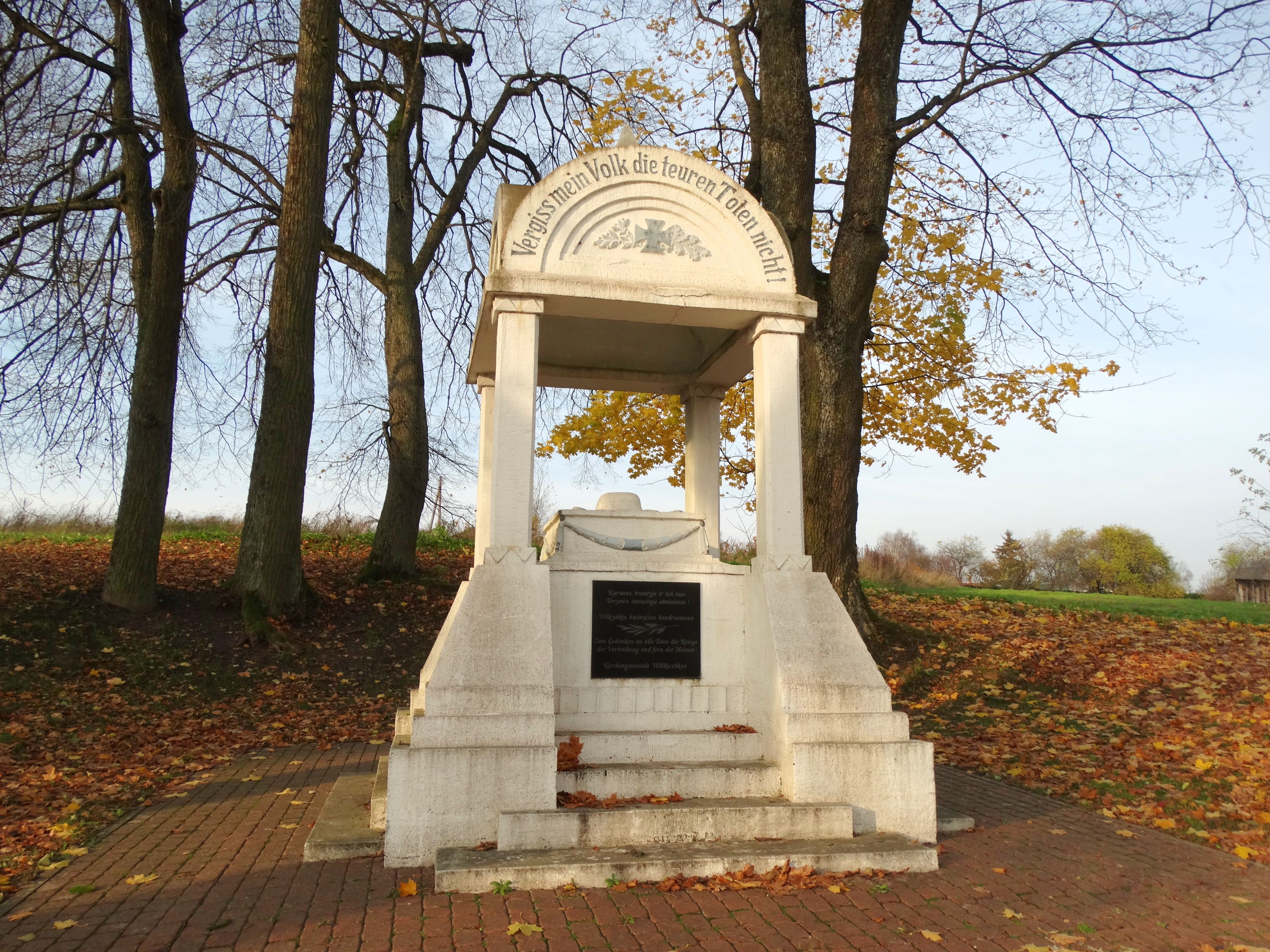 Monument to victims of World War I, Vilkyškiai, Pagėgiai Municipality, Lithuania